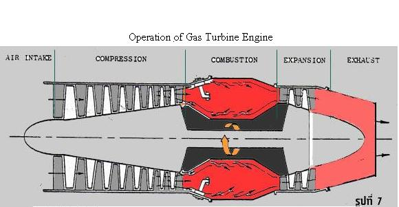 Operation of Gas Turbine Engine